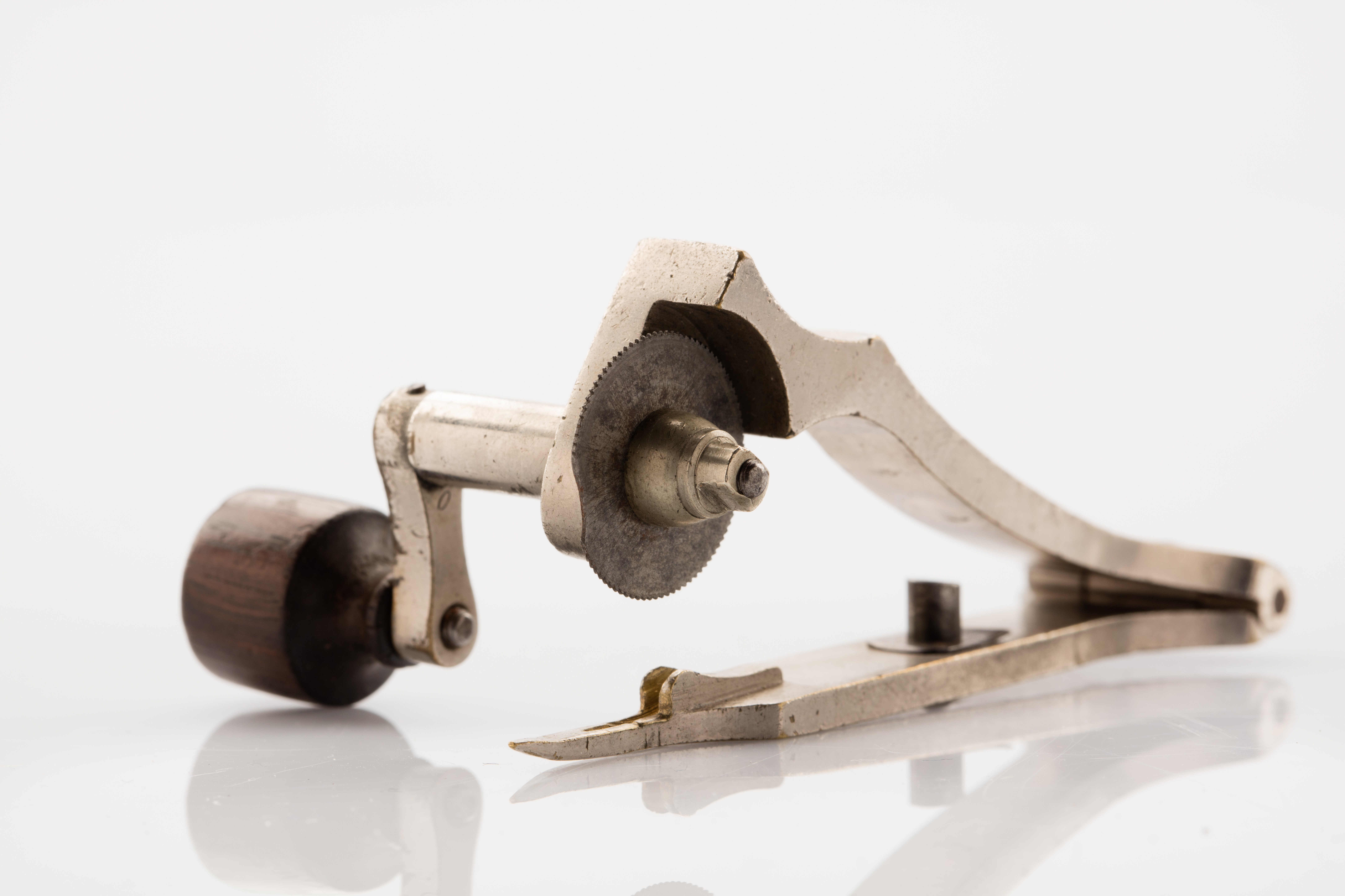 Ring cutting tool steel tool with hinge. One arm ends in a point with hole for cutting disc. Other arm has cutting disc attachment with wooden rotating handle. Engraved "0" near hinge. a tool for cutting a ring off a finger of a person with enlarged knuckles or injuries preventing normal removal of the ring